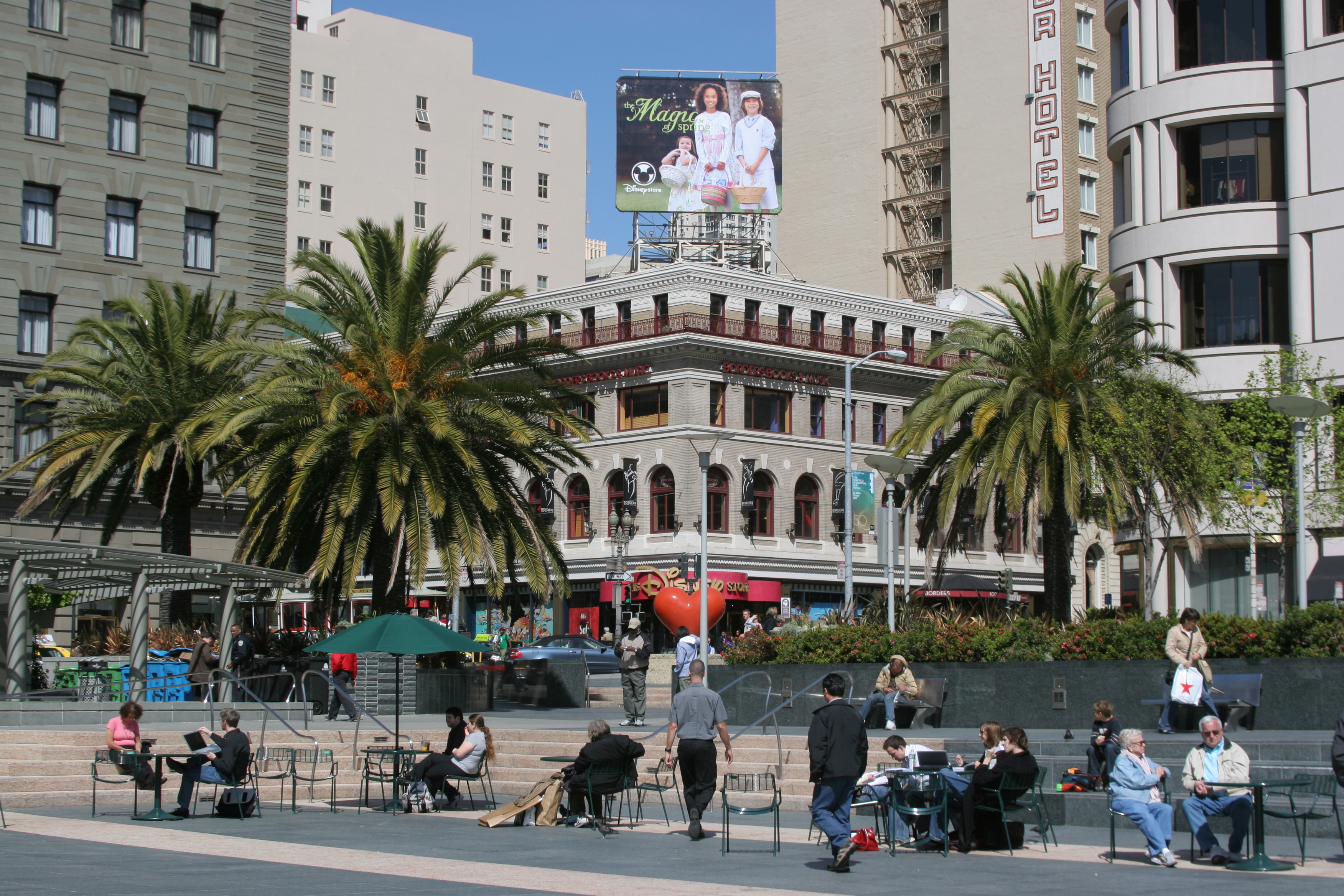 Union Square in San Francisco.